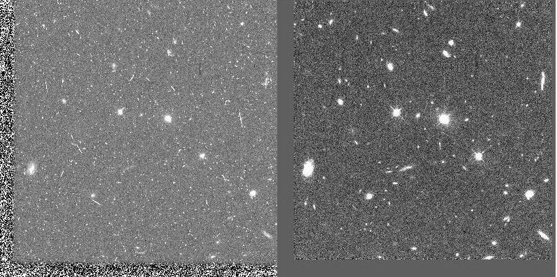 Association, CADC & Stecf, External Links Images with the WFPC2 at ESA/Hubble